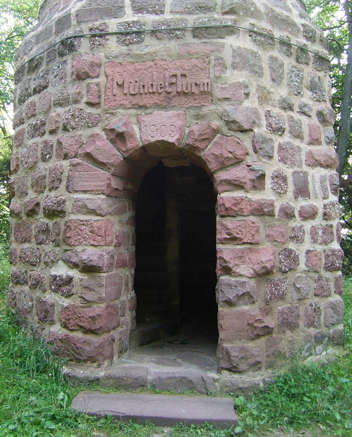 Entrance of the Mündel tower at the top of Heidenkopf, in the Vosges moutains, France